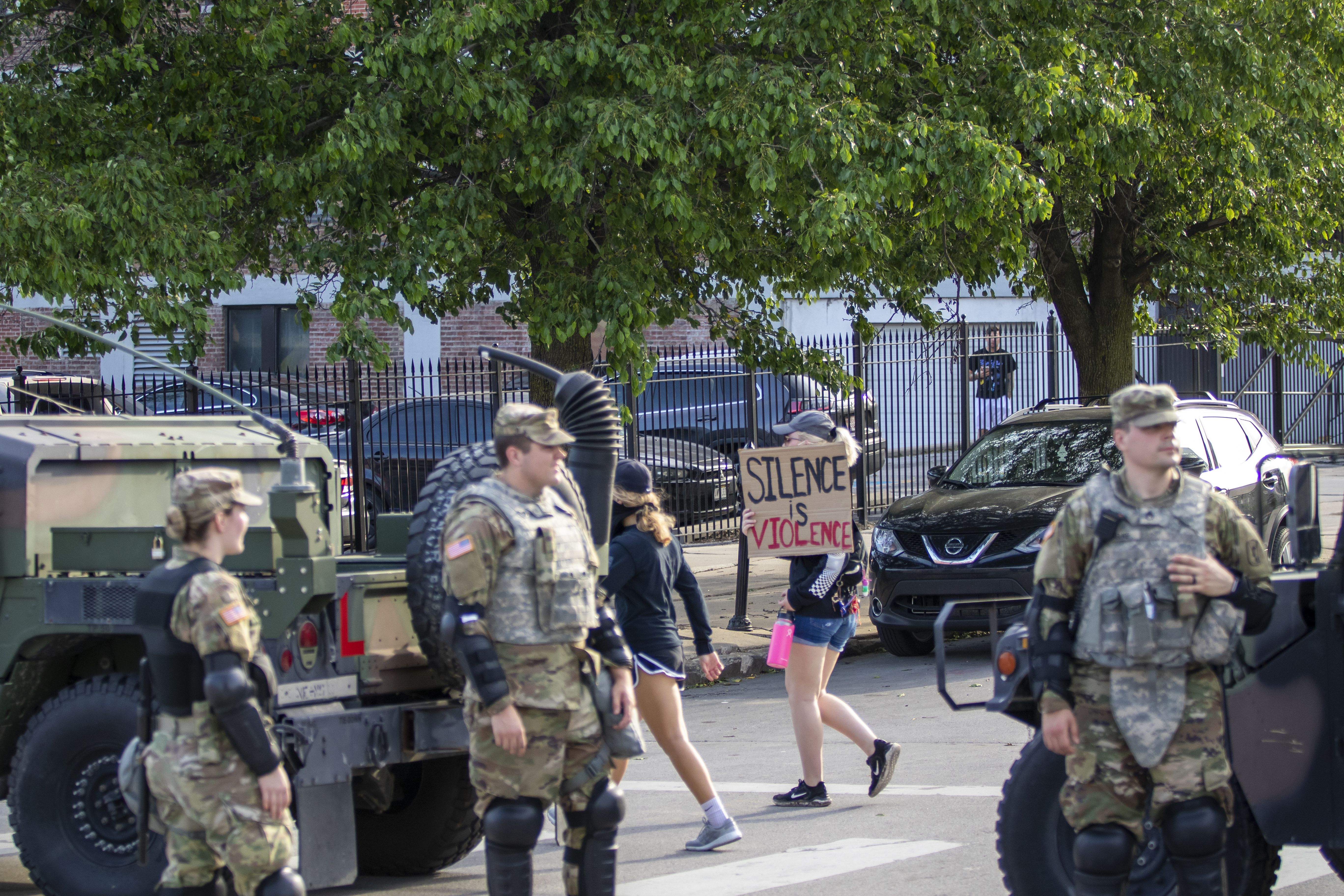 Soldiers with the Nebraska Army National Guard’s 192nd Military Police Detachment and 1057th Military Police Company, support local law enforcement and help enforce a city-wide curfew, June 2, 2020, in downtown Omaha, Nebraska. The Nebraska National Guard was activated to support civil authorities in protecting property and ensuring the safety of Nebraskans participating lawfully in peaceful demonstrations. (Nebraska National Guard photo by Sgt. Lisa Crawford)